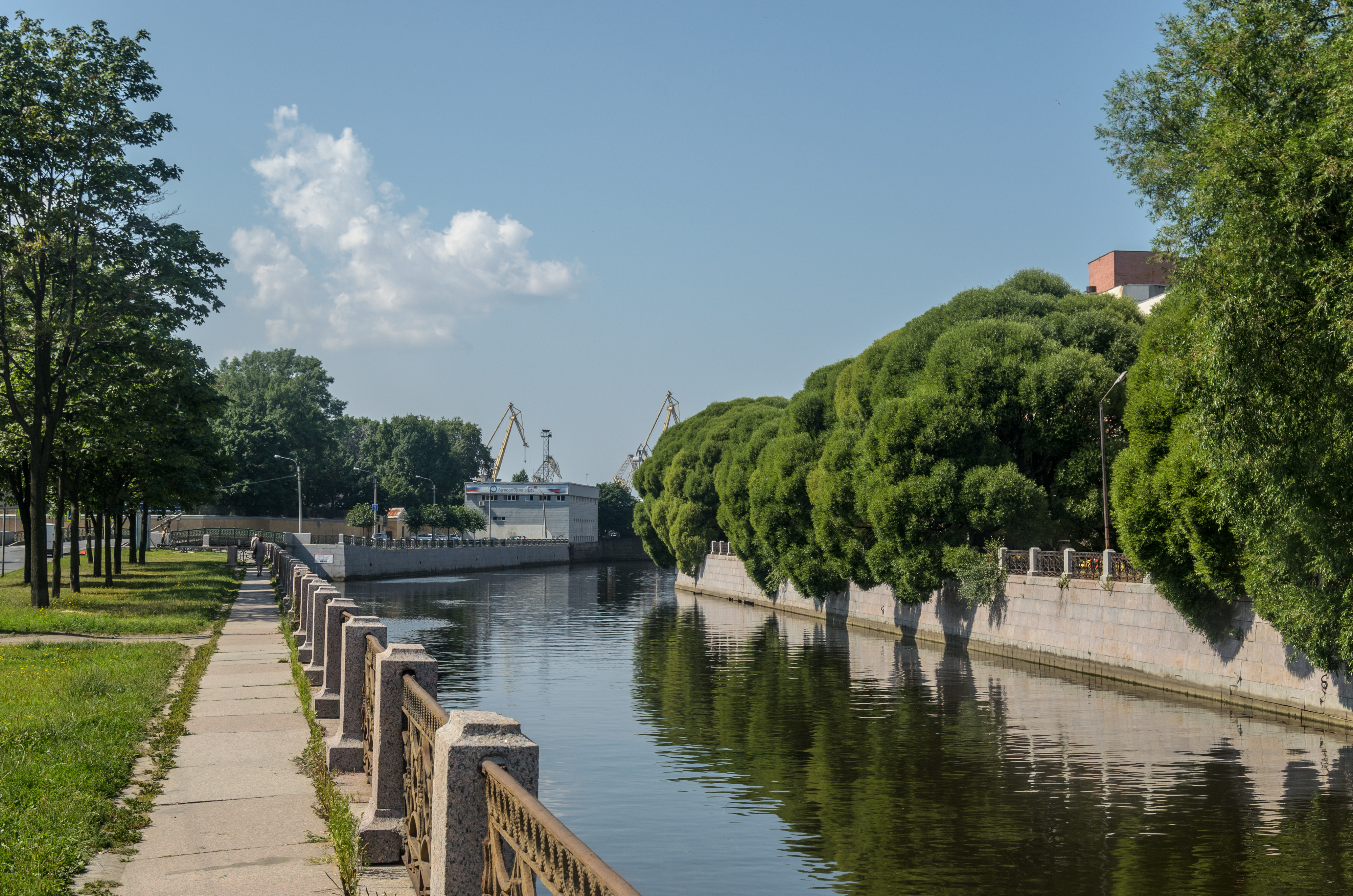 Moyka River near Admiralty Shipyard in Saint Petersburg